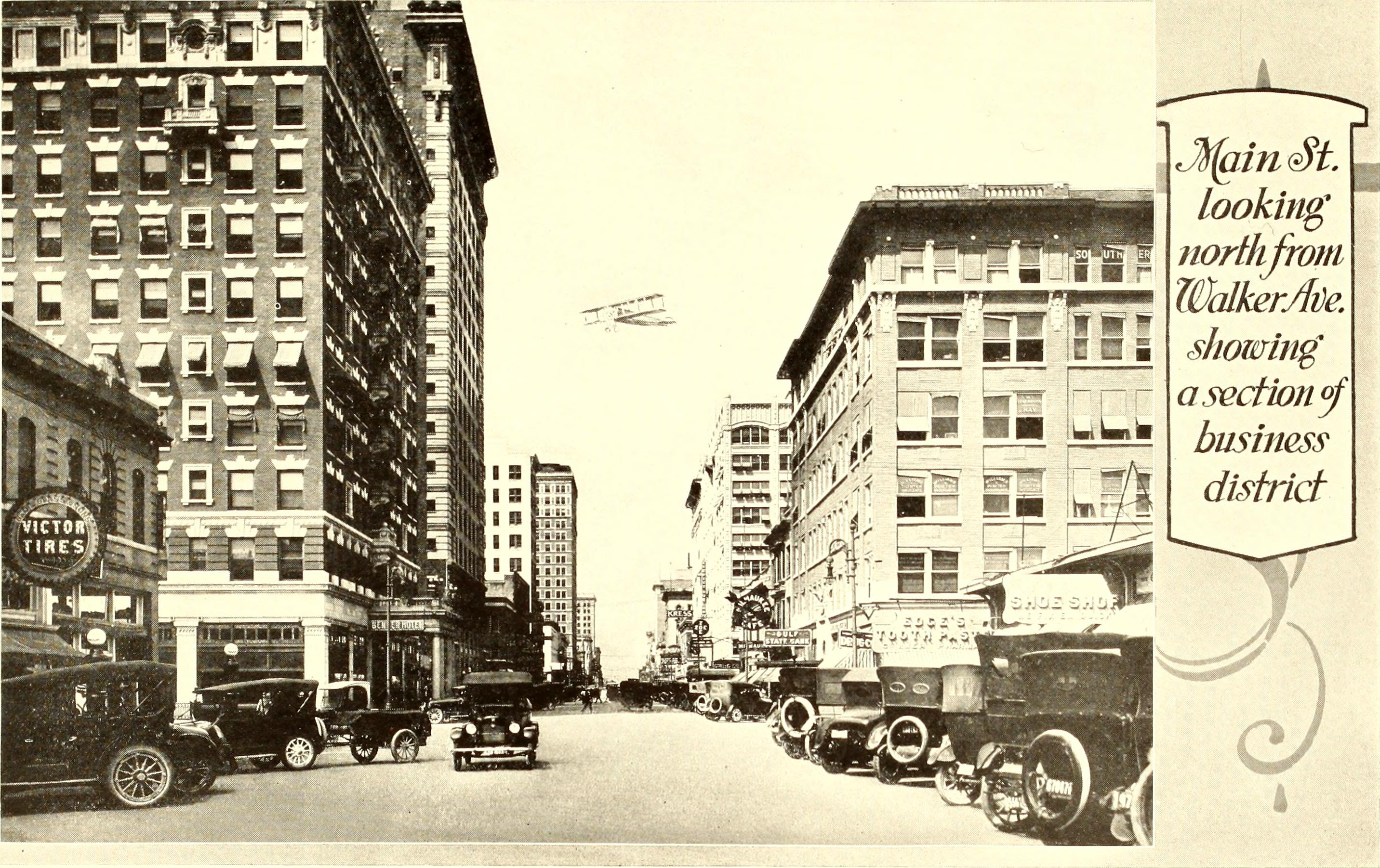 Title: Municipal book of the City of Houston, 1922 Year: 1922 (1920s) Authors: City of Houston (Tex.) Beard, Norman H. Subjects: Houston (Tex.) Publisher: Houston, Tex. : (s.n.), 1922- Text Appearing Before Image: A Group of Houston Skyscrapers Text Appearing After Image: '